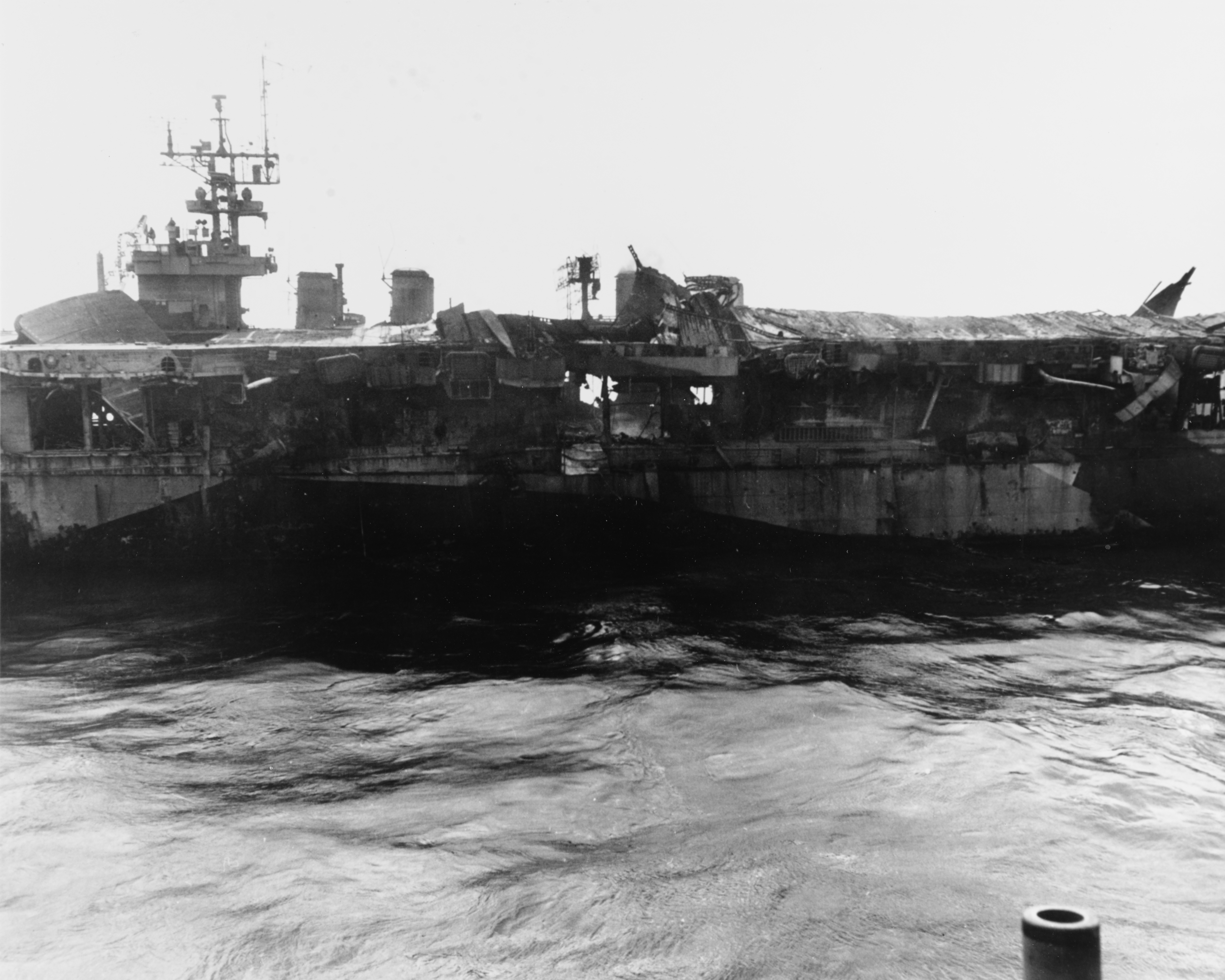 Loss of the U.S. Navy light aircraft carrier USS Princeton (CVL-23) off the Philippines on 24 October 1944: View of Princeton's port midships area, showing her collapsed forward aircraft elevator and shattered flight deck, the results of explosions in her hangar deck following a Japanese bomb hit off the Philippines on 24 October 1944. Photographed from the light cruiser USS Birmingham (CL-62), which was coming alongside to assist with firefighting.